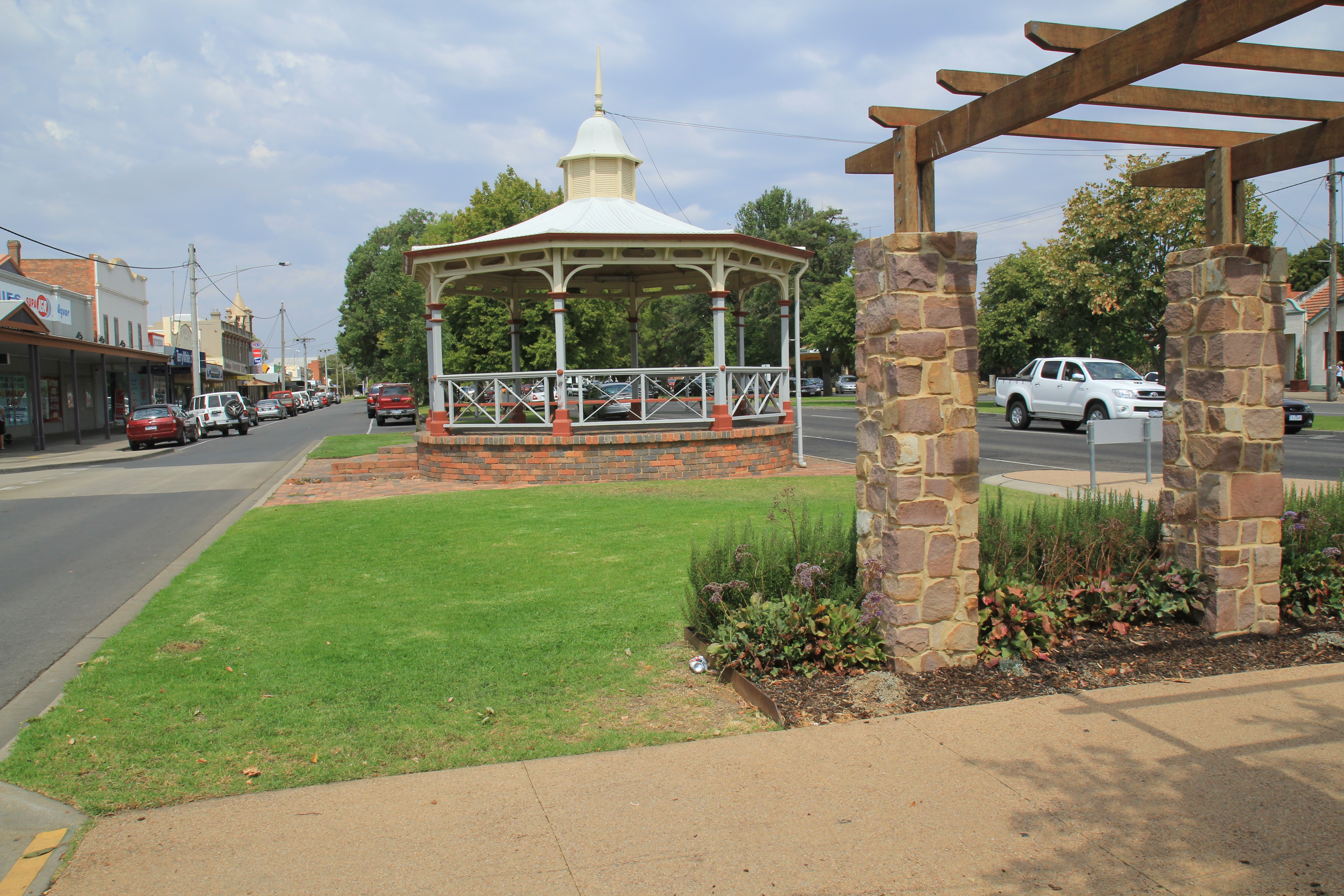 Maffra streetscape taken